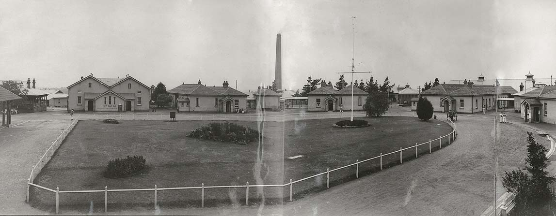 Lidcombe State Hospital and Home Dated: No date Digital ID: 4346_a020_a020000186 Rights: We'd love to hear from you if you use our photos. Many other photos in our collection are available to view and browse on our website using Photo Investigator.